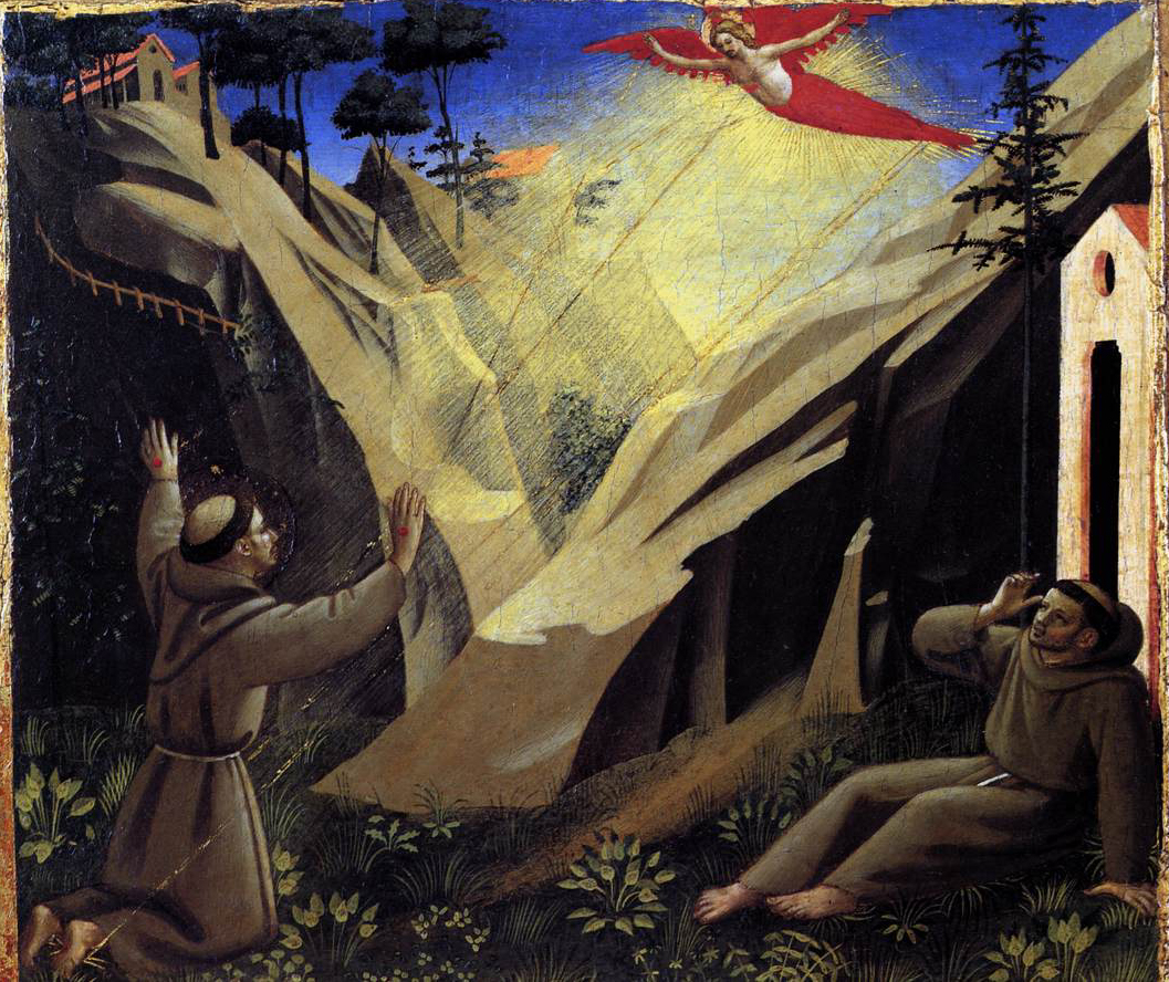 St Francis Receiving the Stigmata